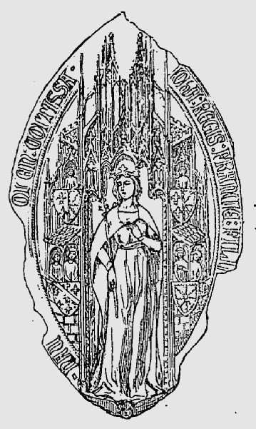 Joan II of Navarre